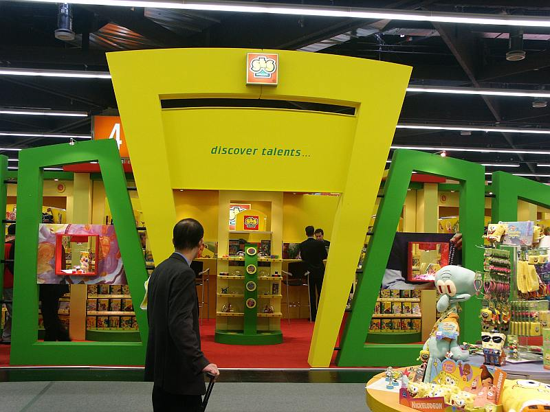 Toy Fair in Nuremberg